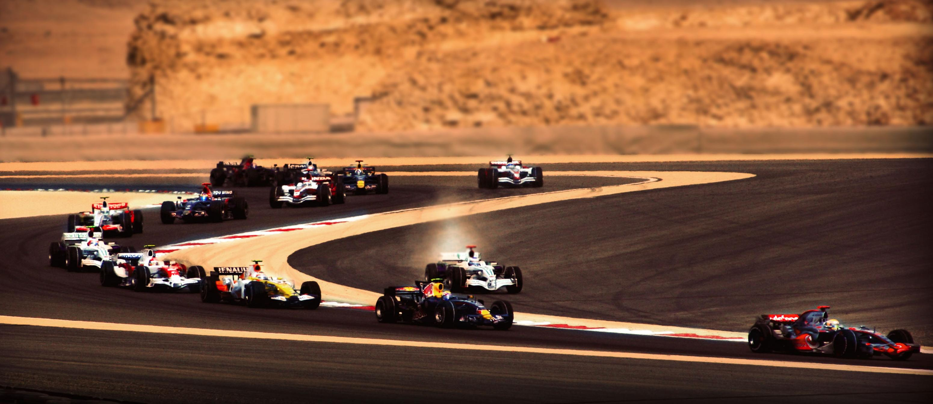 The first lap of the 2008 Bahrain Grand Prix.